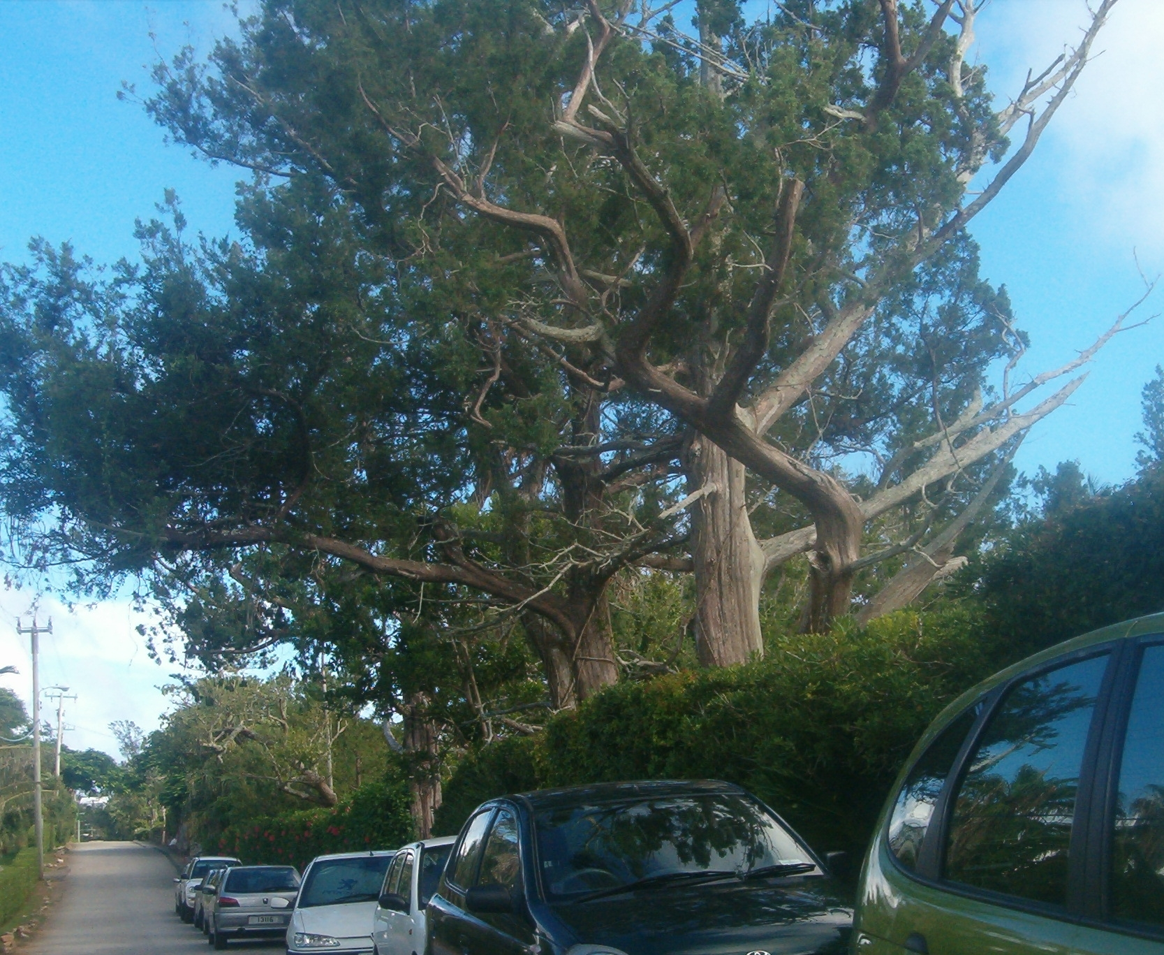 Old growth Bermuda Cedars (Juniperus bermudiana), in a garden in Paget, Bermuda.